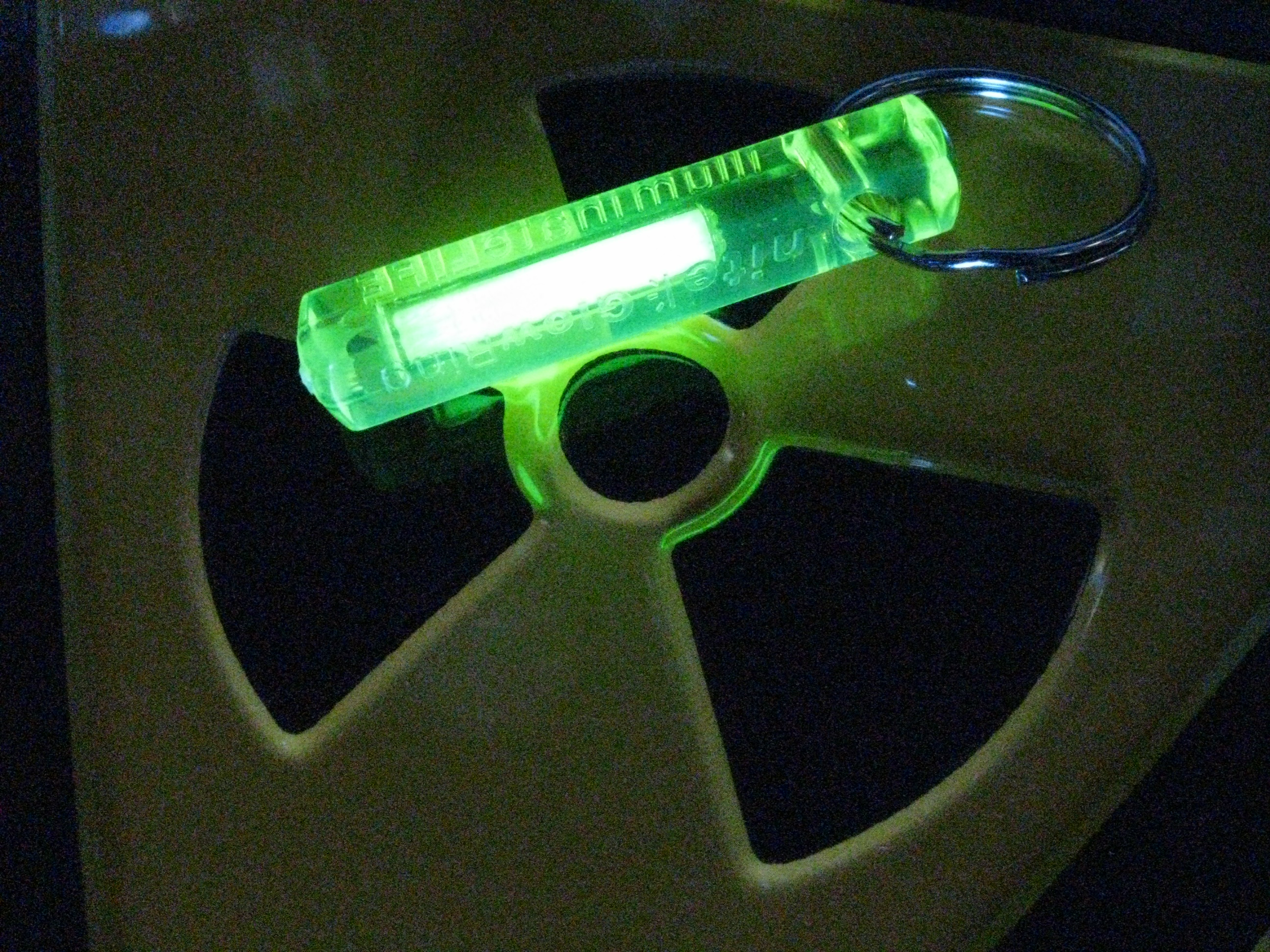 H3 (Tritium) in a 'nite GlowRing'